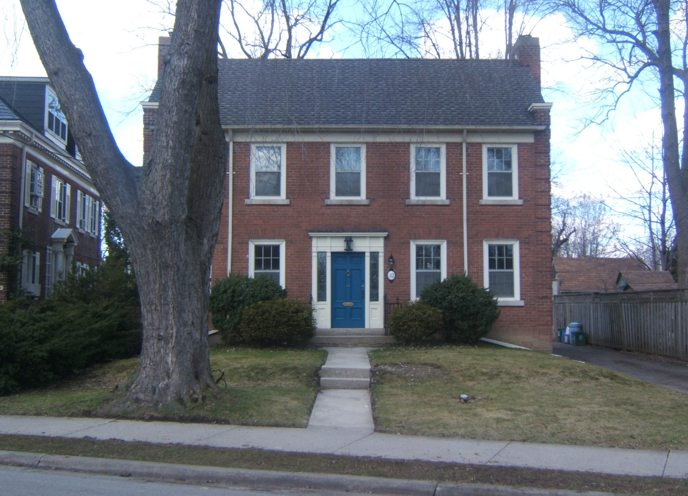 Photo of Neo-Georgian Houses on Lake Cres in Mimico